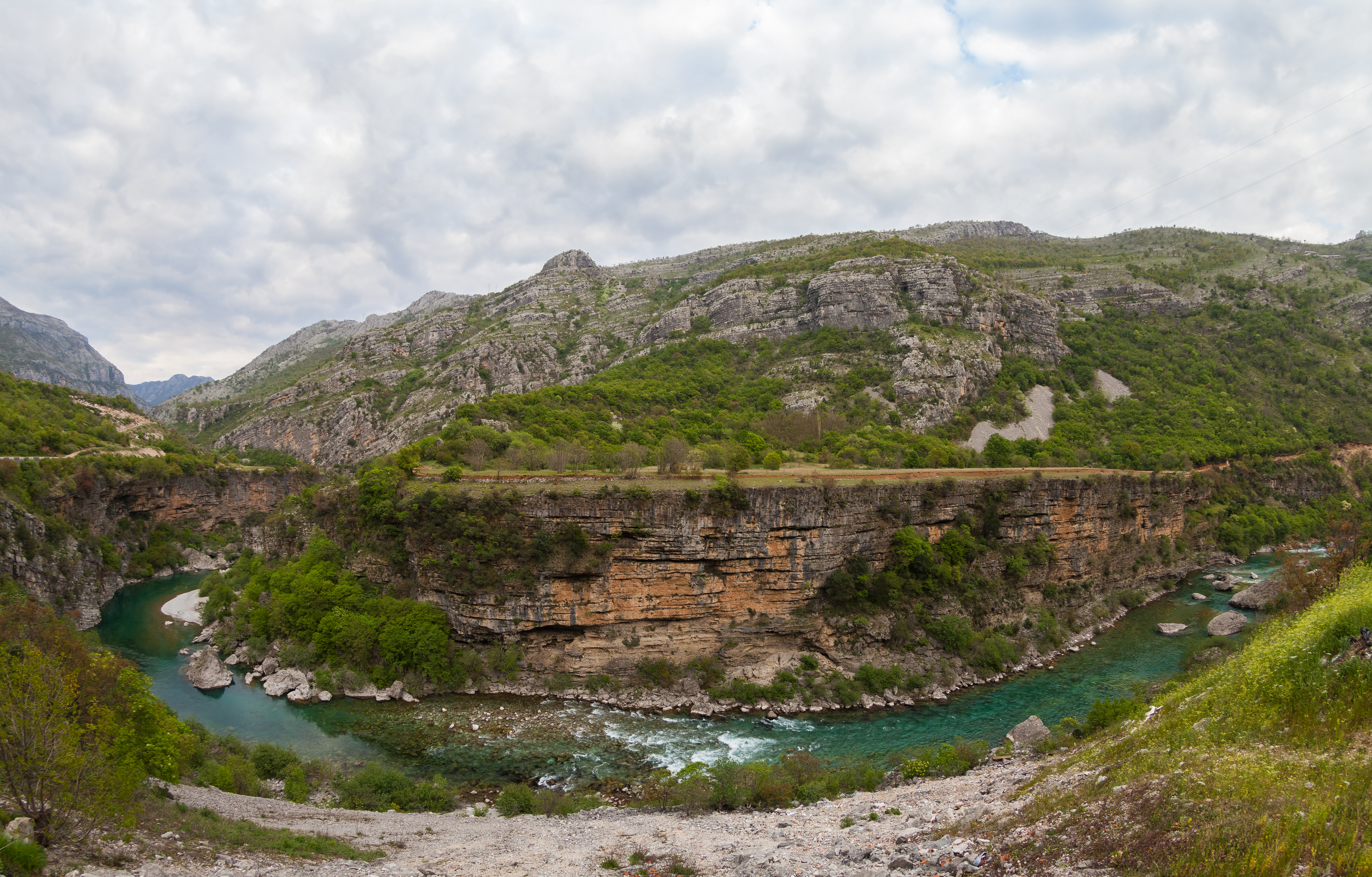 Moraca river, north of Podgorica, Montenegro